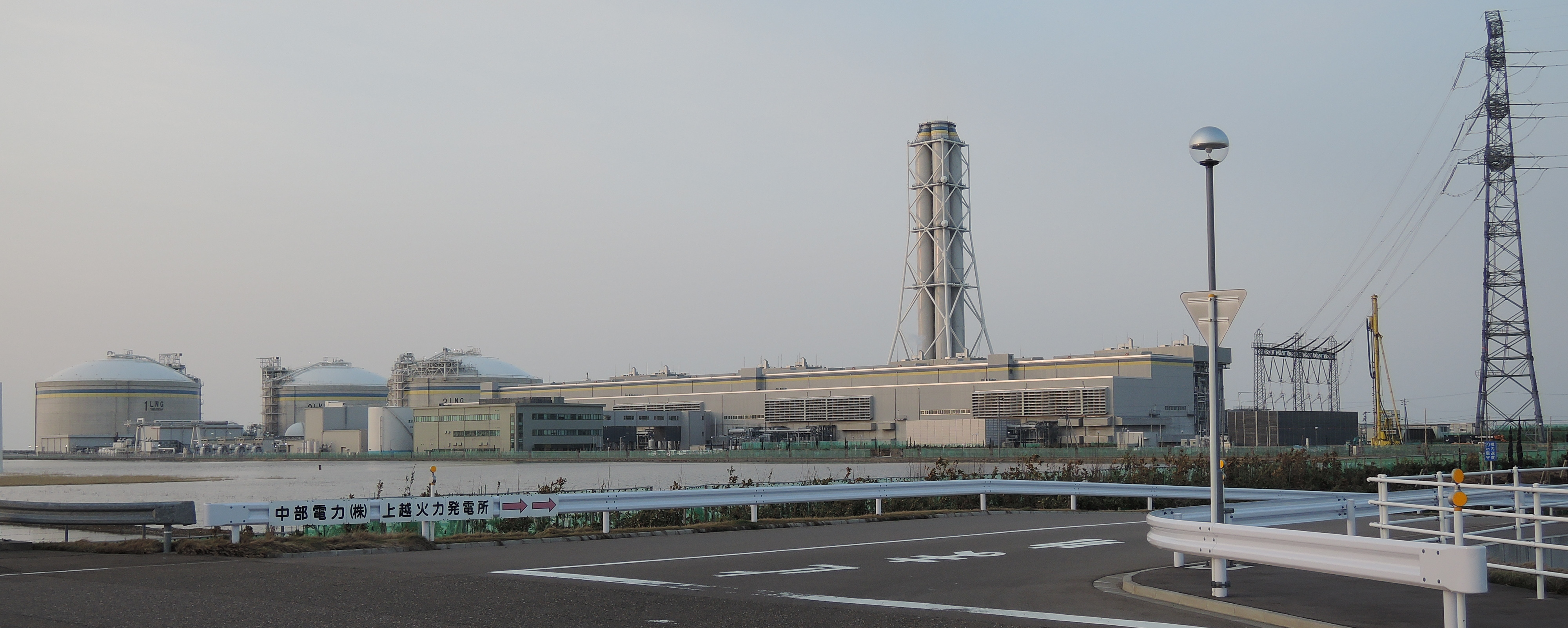 Joetsu Thermal Power Station ,Niigata prefecture, Japan